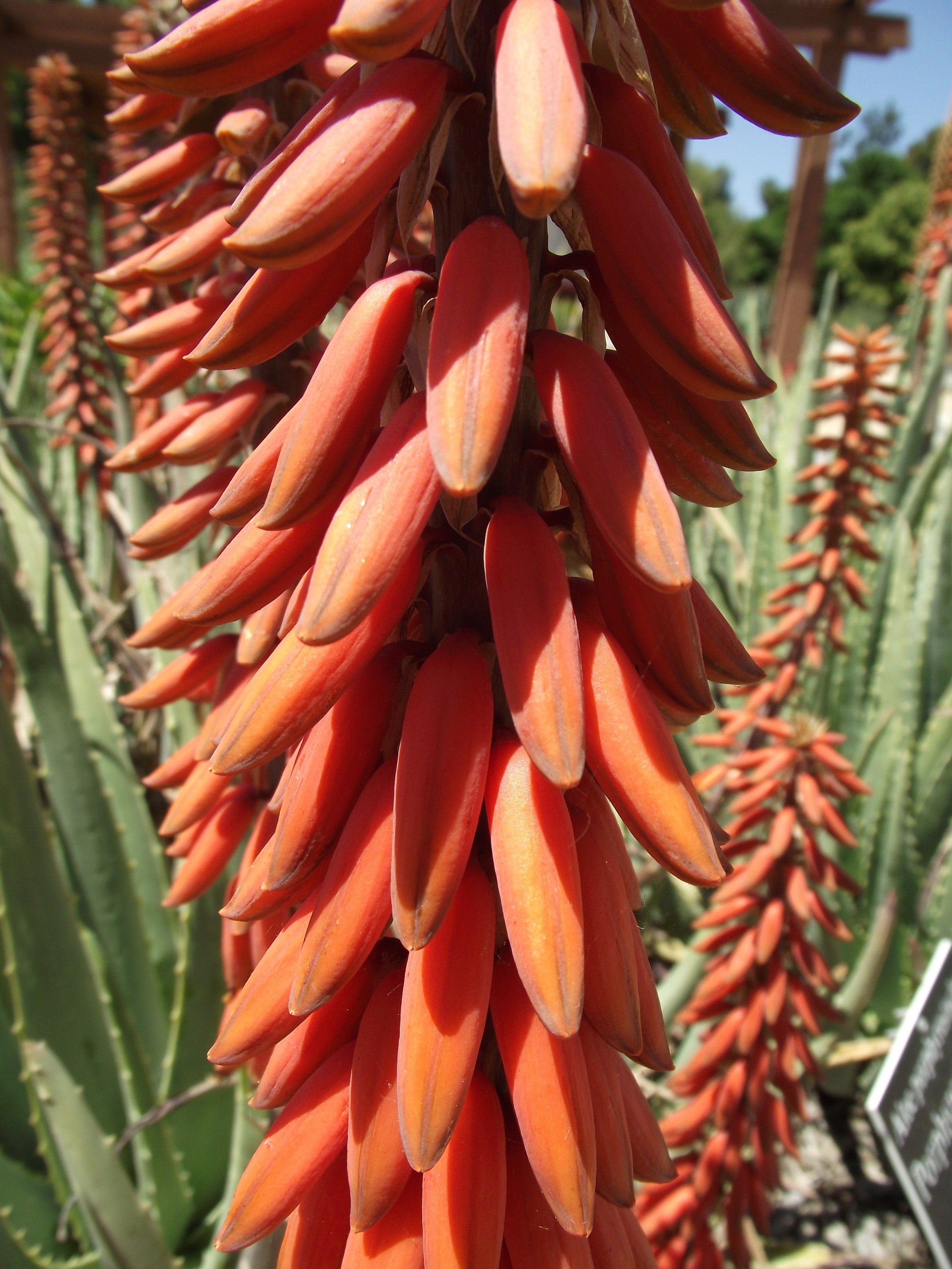 Aloe porphyrostachys at the Los Angeles County Arboretum, Arcadia, California, USA. Identified by sign.